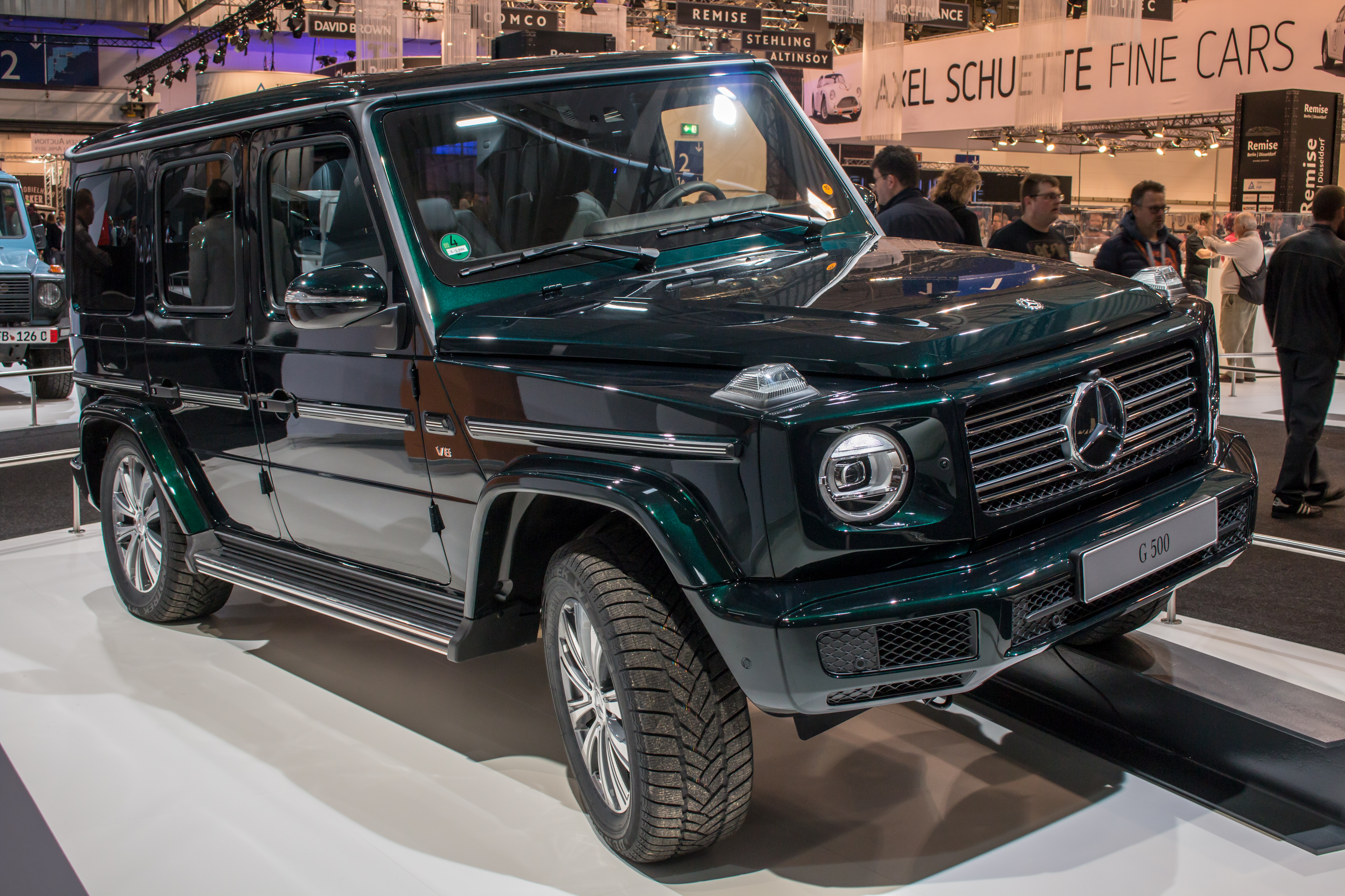 Mercedes-Benz, Techno-Classica 2018, Essen